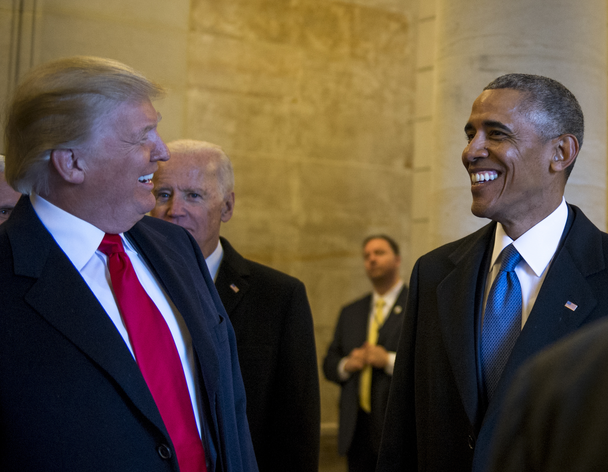 U.S. President Donald J. Trump and Former U.S. President Barack Obama wait to exit the east front steps for the departure ceremony during the 58th Presidential Inauguration in Washington, D.C., Jan. 20, 2017. More than 5,000 military members from across all branches of the armed forces of the United States, including reserve and National Guard components, provided ceremonial support and Defense Support of Civil Authorities during the inaugural period. (DoD photo by U.S. Air Force Staff Sgt. Marianique Santos) Unit: Joint Task Force - National Capital Region 58th Presidential Inauguration DVIDS Tags: President Obama; Obama; POTUS; Biden; Capitol; Capitol Hill; Presidential; Washington D.C.; JTF-NCR; Trump; Inauguration2017; President Donald J. Trump; President Trump; Trump administration; 1CTCS inauguration doc